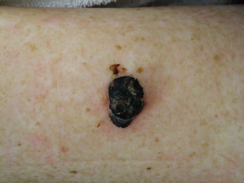 Photography of nodular melanoma